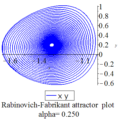 Rabinovich Fabricant xy plot alpha=0.25